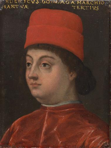 Portrait of Federico I Gonzaga, Marquess of Mantua (1441-1484), Marquess of Mantua from 1478 to 1484.